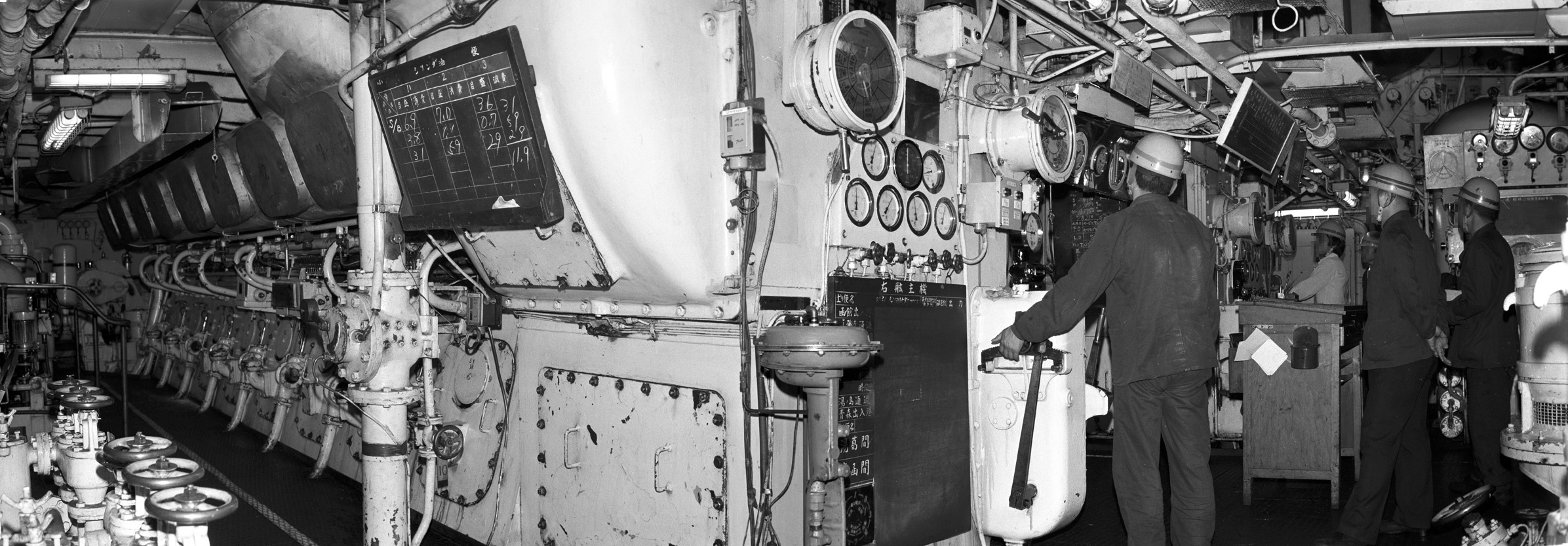 The Japanese National Railways train ferry between Aomori and Hakodate MS SORACHI MARU １ Main engine room